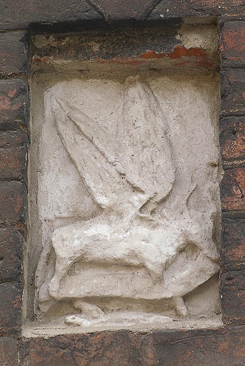 Sculpture St. Lucas, St. Peter church, Malmo, Sweden, about 1460.